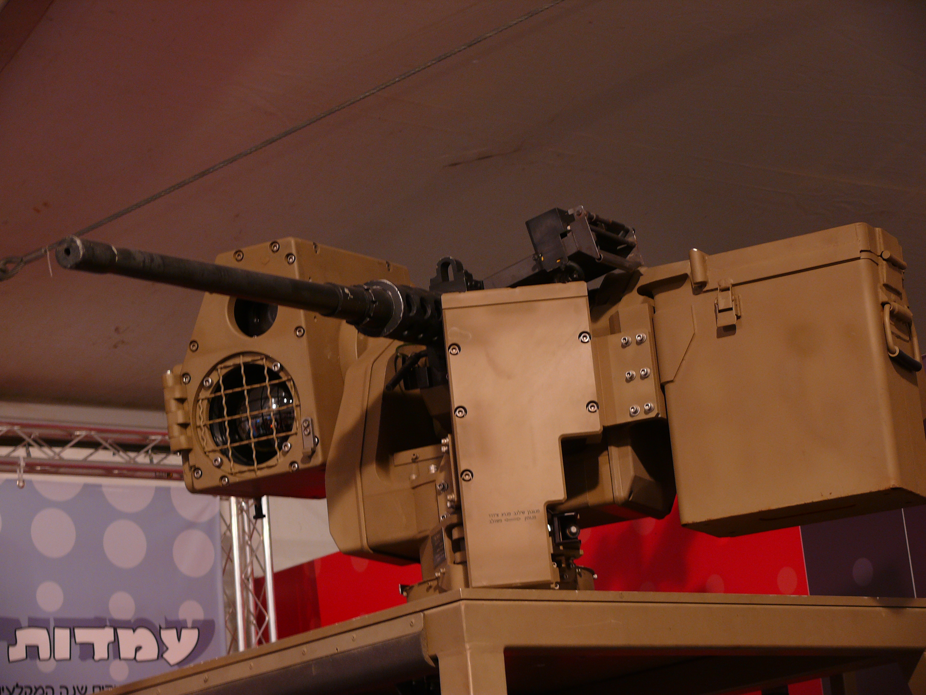 M2 Browning in Remote Weapon Station (RWS) by Rafael